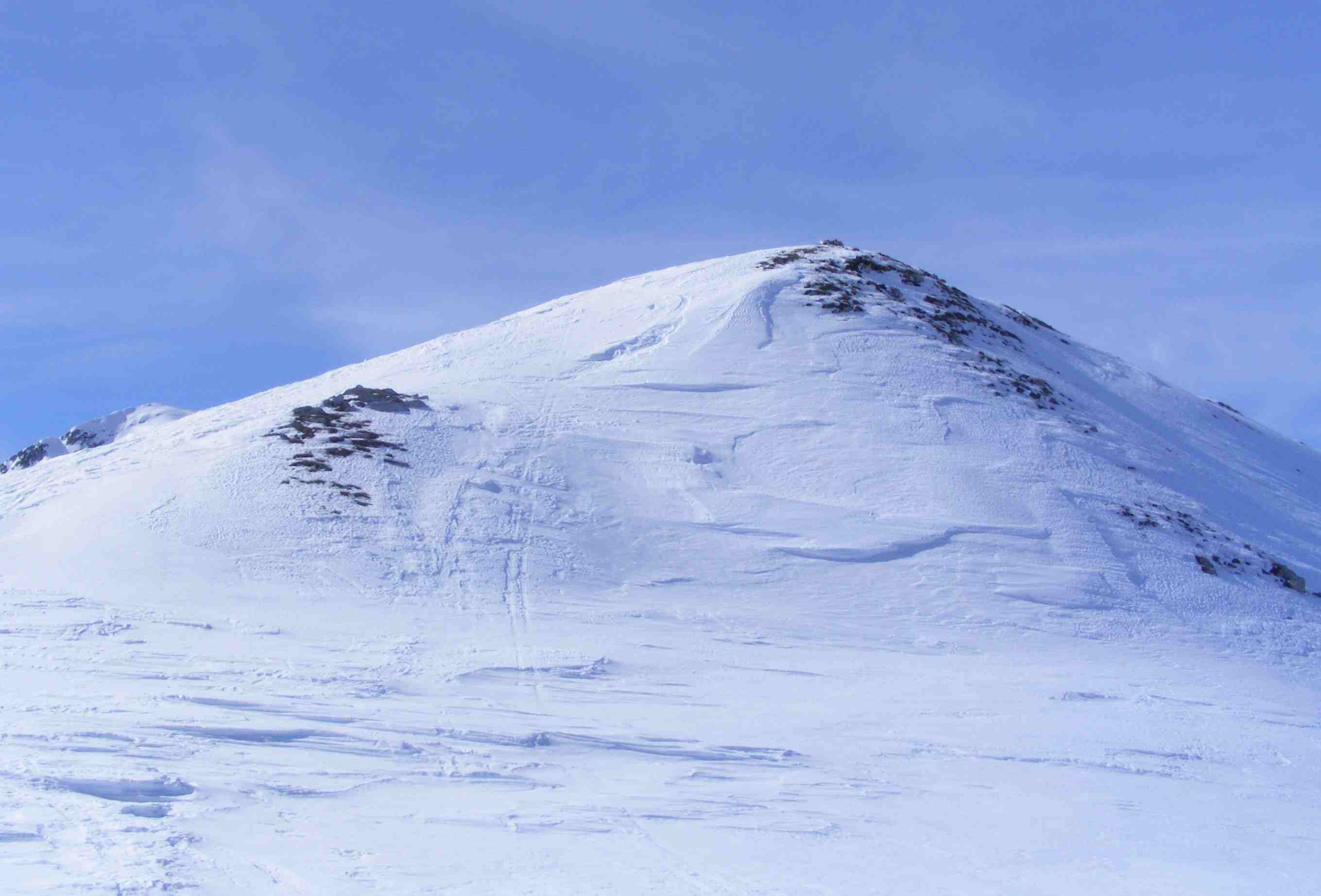 Monte Grosso (CN, Italy); on its the left Monte Antoroto